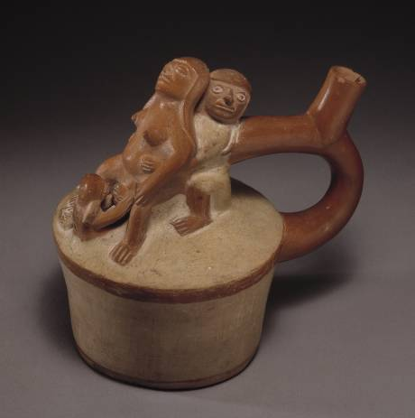 Moche ceramic vessel showing a woman giving birth. Larco Museum Collection. Lima-Peru